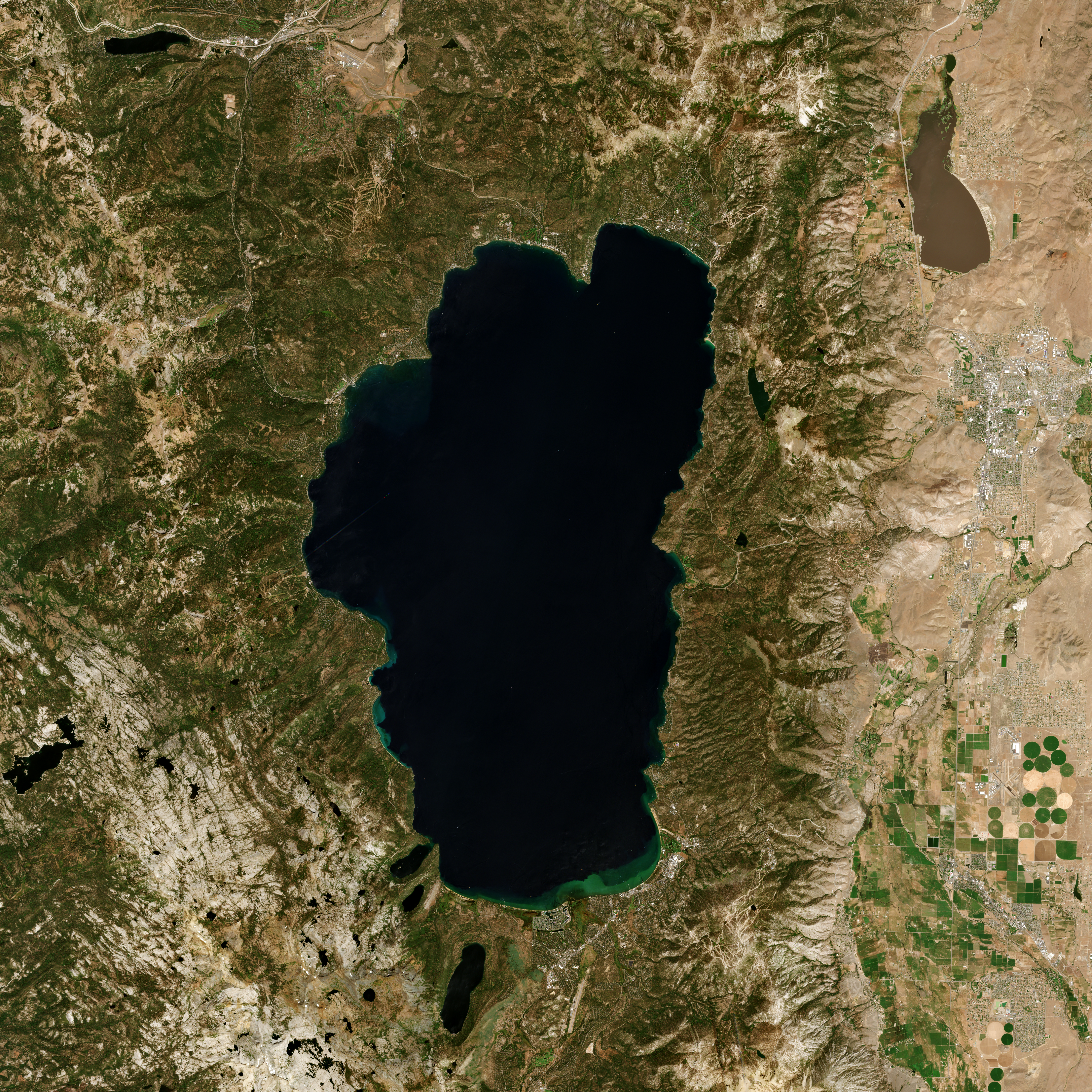 Date: 2018-08-20 Sensor: MSI on Sentinel-2A Resolution: 10m RGB Composites: True color, Band 4-3-2